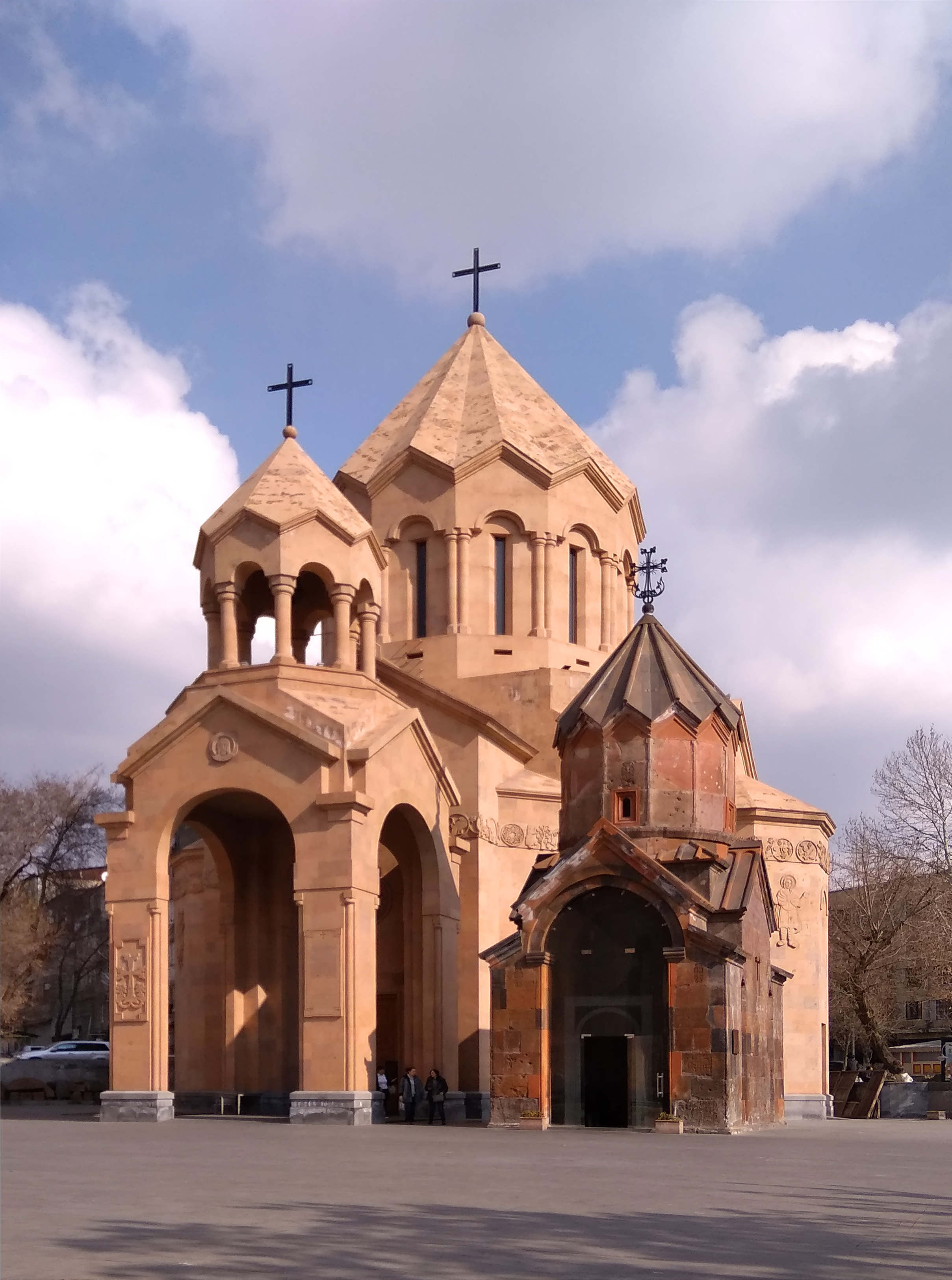 Katoghike Holy Mother of God Church in Yerevan, Armenia